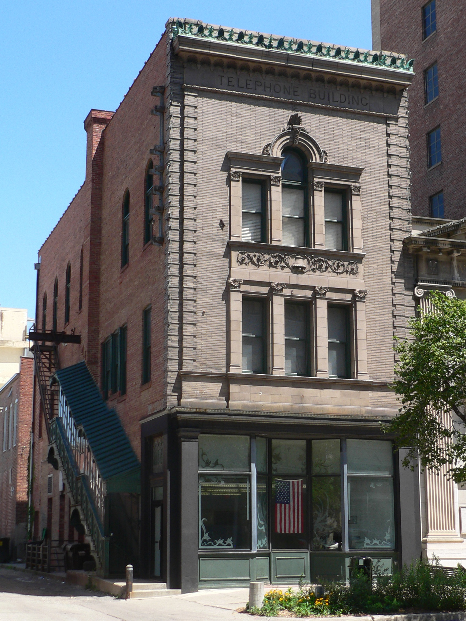 Nebraska Telephone Company building, located at 128-130 S. 13th Street in Lincoln, Nebraska; seen from the northwest.